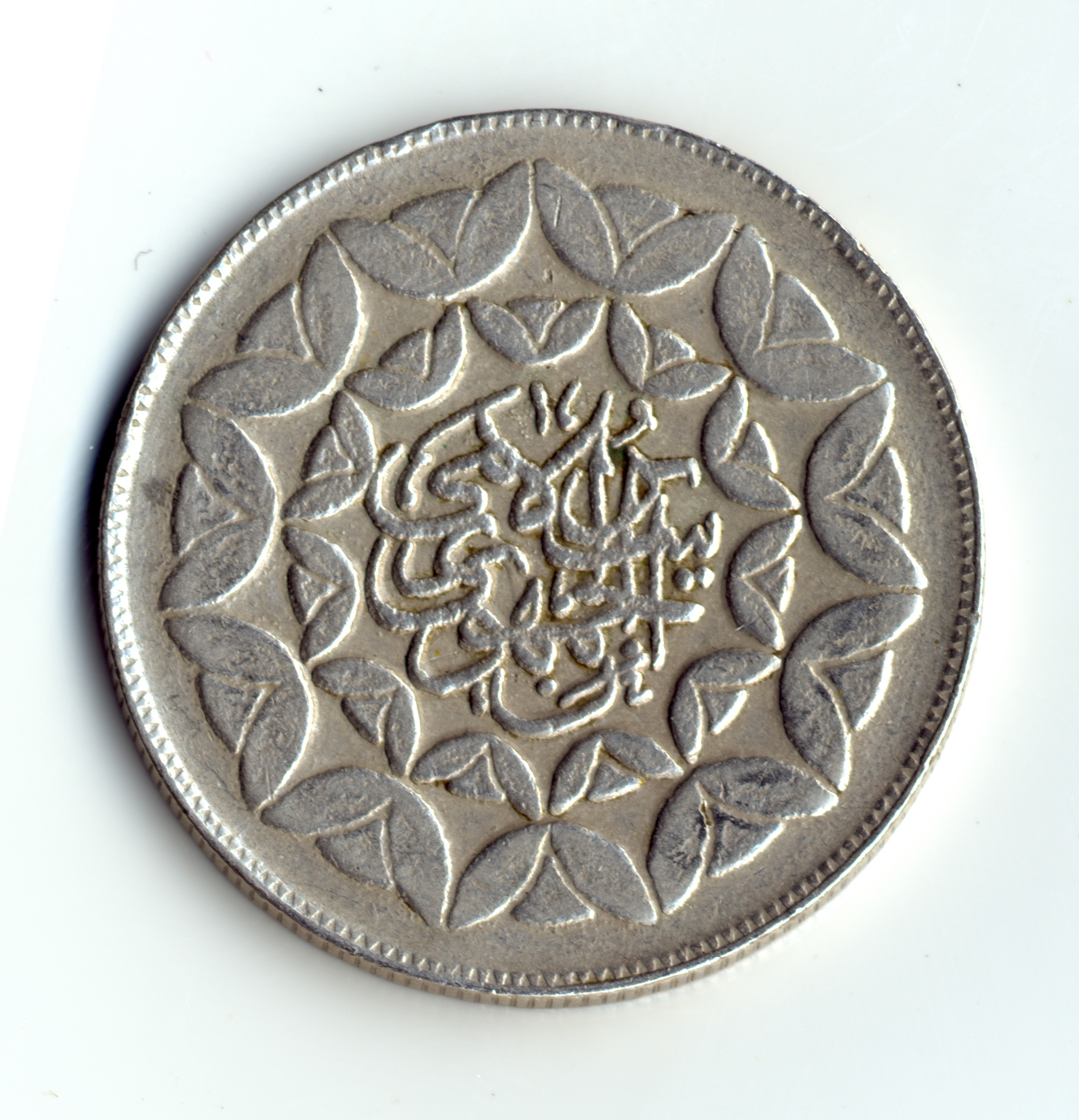 Obverse of Iranian 20 Rials coin - monument of 3rd anniversary of Islamic revolution - 1979